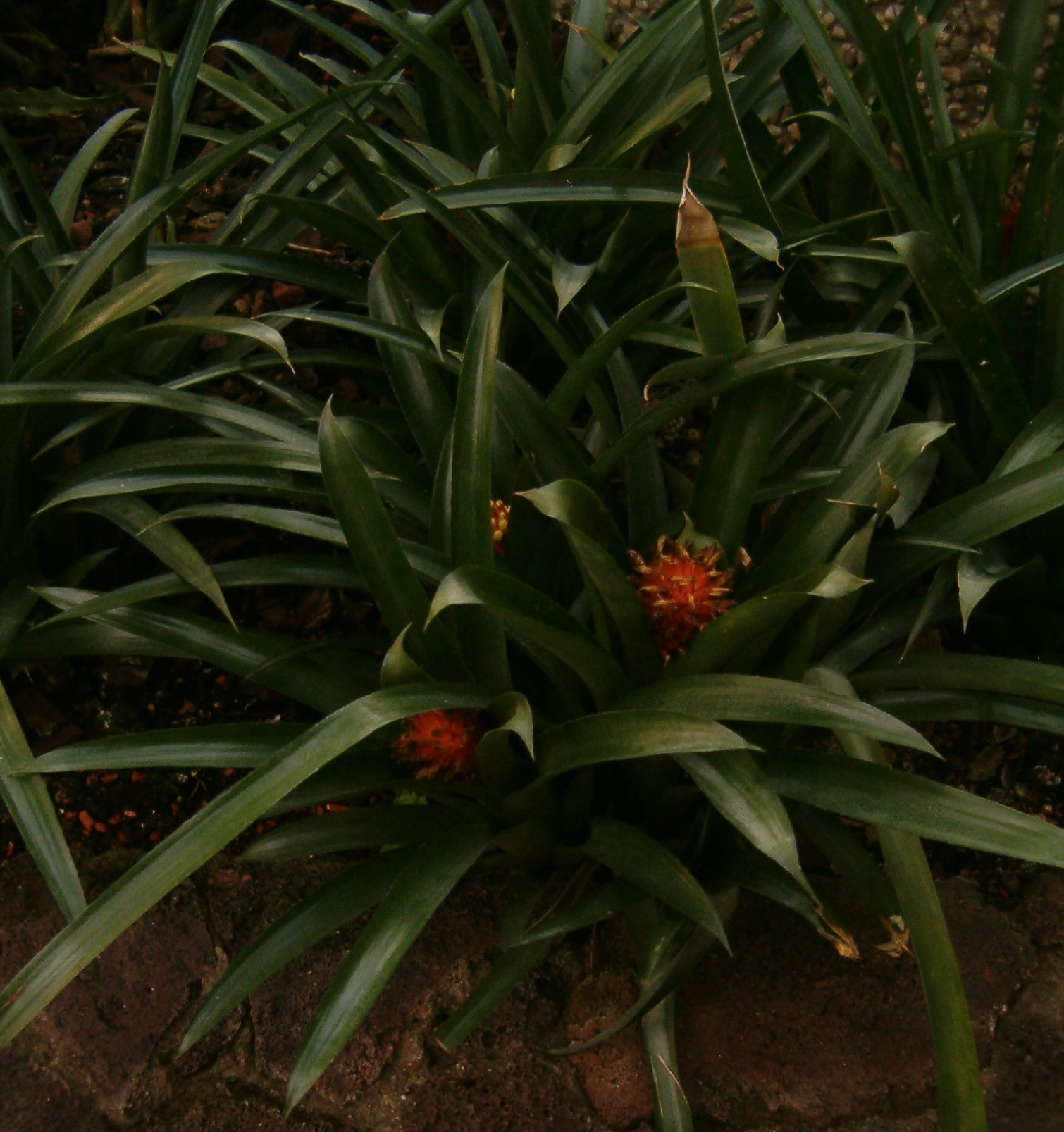 At Botanical Gardens Berlin-Dahlem Species Aechmea pimenti-velosoi